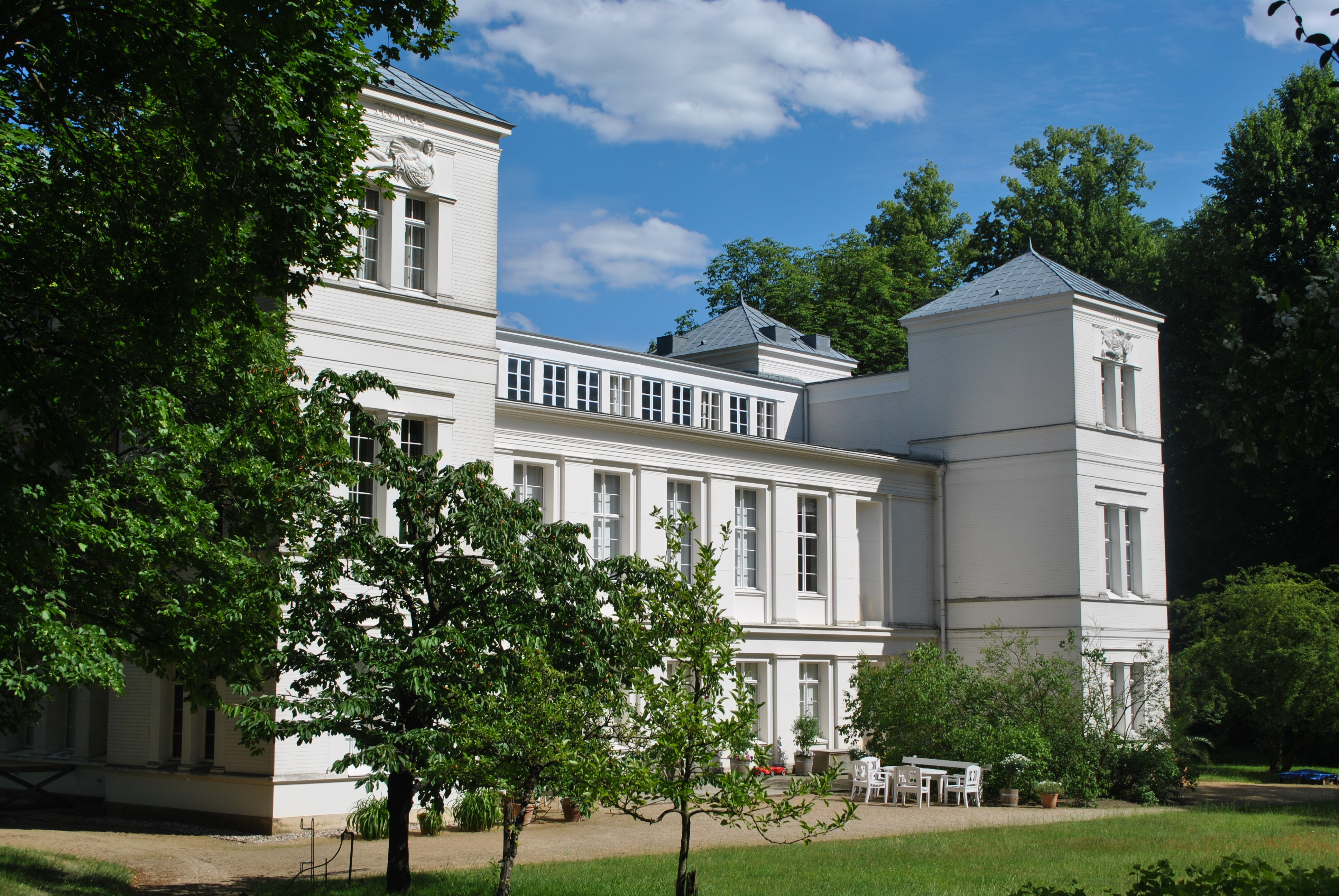 Image originally published in Queer Places: Retracing the Steps of LGBTQ people around the World Authored by Elisa Rolle